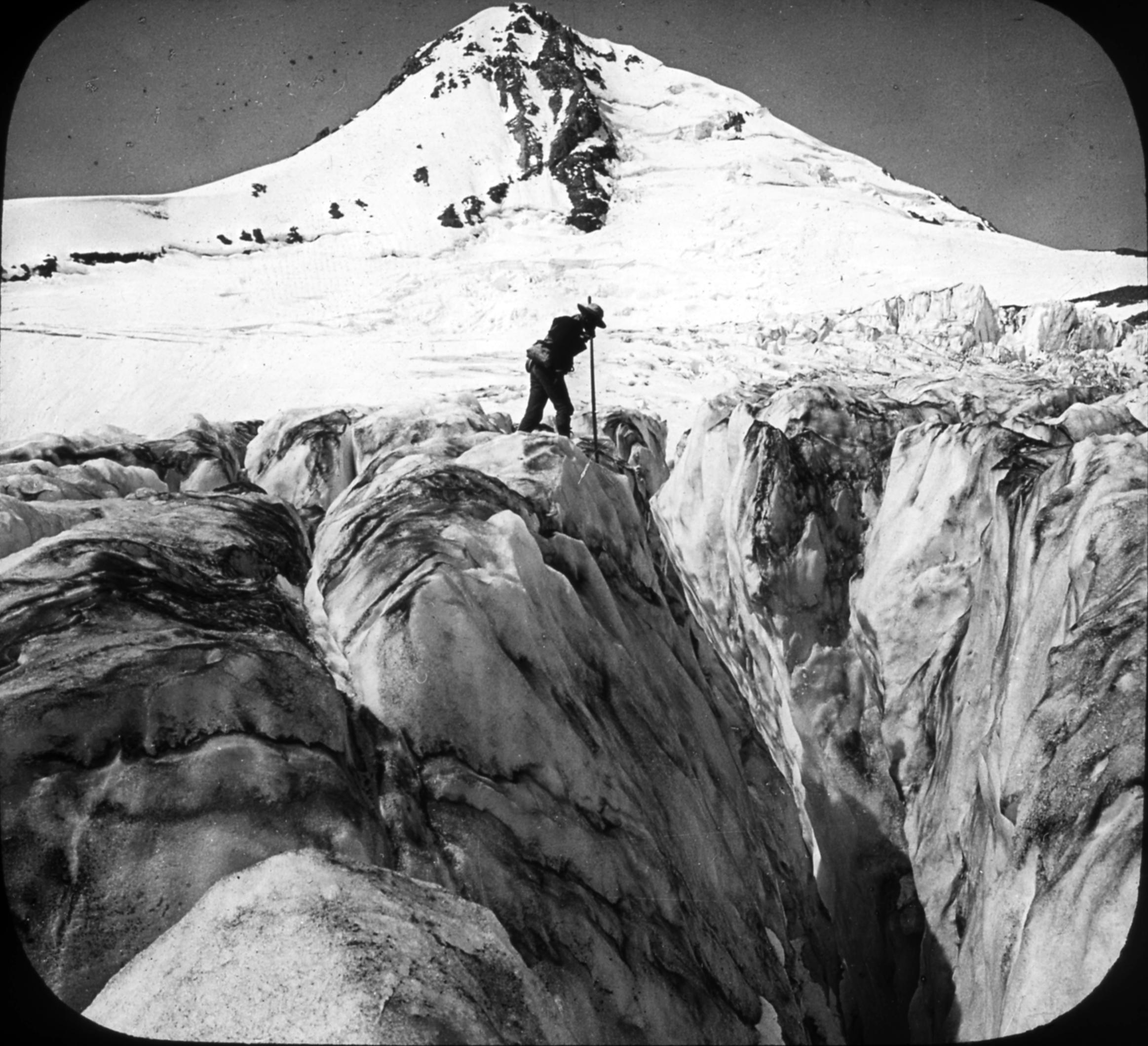 Description/Notes: "On the climb we turn aside for a look into crevasses of Elliott Glacier in the midst of a sea of snow and ice." Original Collection: Visual Instruction Department Lantern Slides Item Number: P217:set 025 028 You can find this image by searching for the item number by clicking here. Want more? You can find more digital resources online. We're happy for you to share this digital image within the spirit of The Commons; however, certain restrictions on high quality reproductions of the original physical version may apply. To read more about what “no known restrictions” means, please visit the Special Collections & Archives website, or contact staff at the OSU Special Collections & Archives Research Center for details.